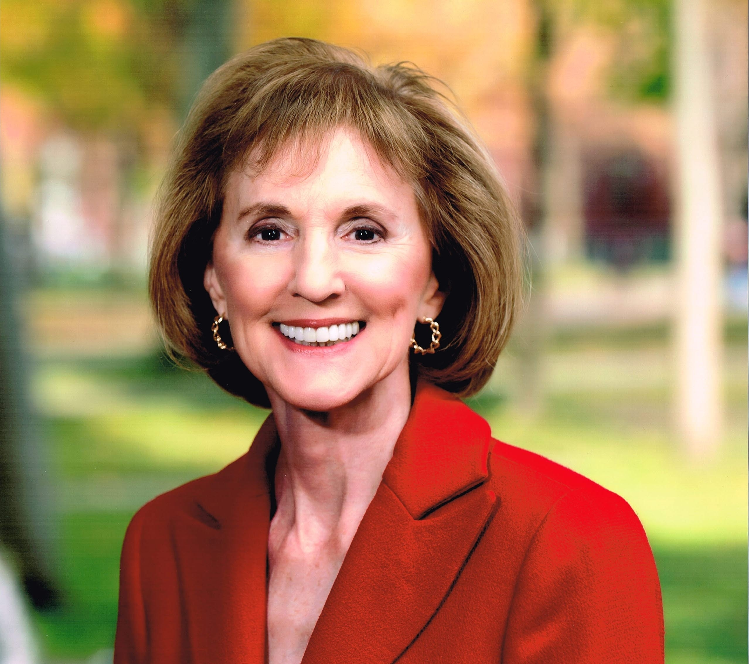 Headshot